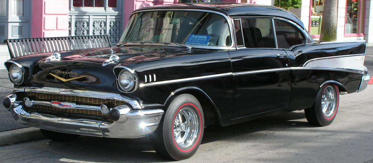 Chevrolet Bel Air coupe photographed @ Universal Studios Orlando.